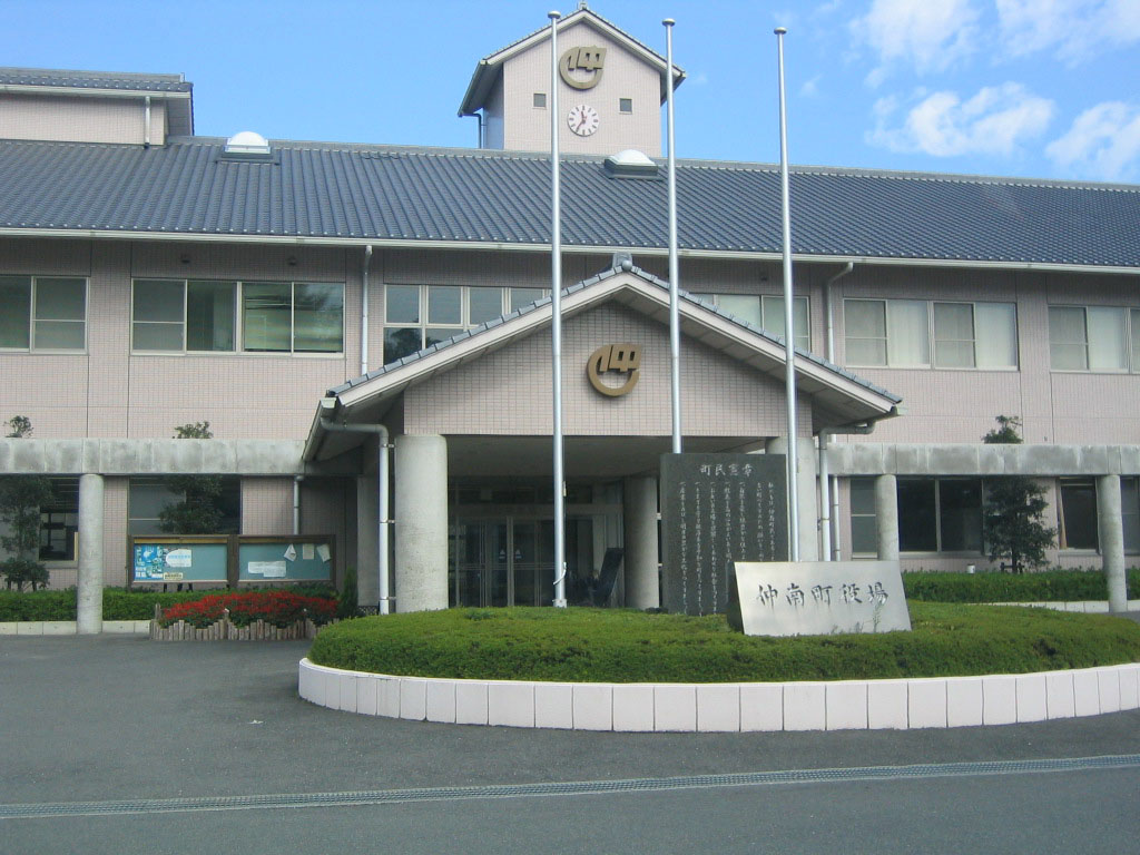 Photo taken by myself User:bridgecross on 10/29/2004. I release it to the public domain.